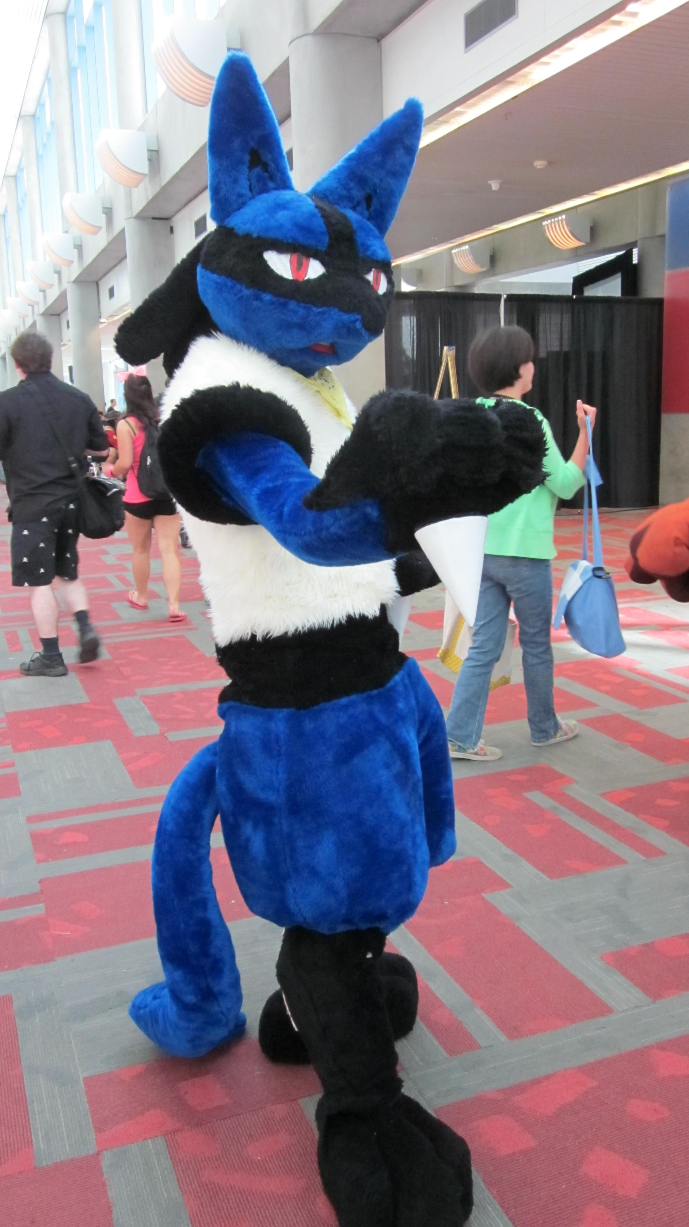 A cosplayer portraying Lucario from Pokémon at FanimeCon 2010 in San Jose, California.